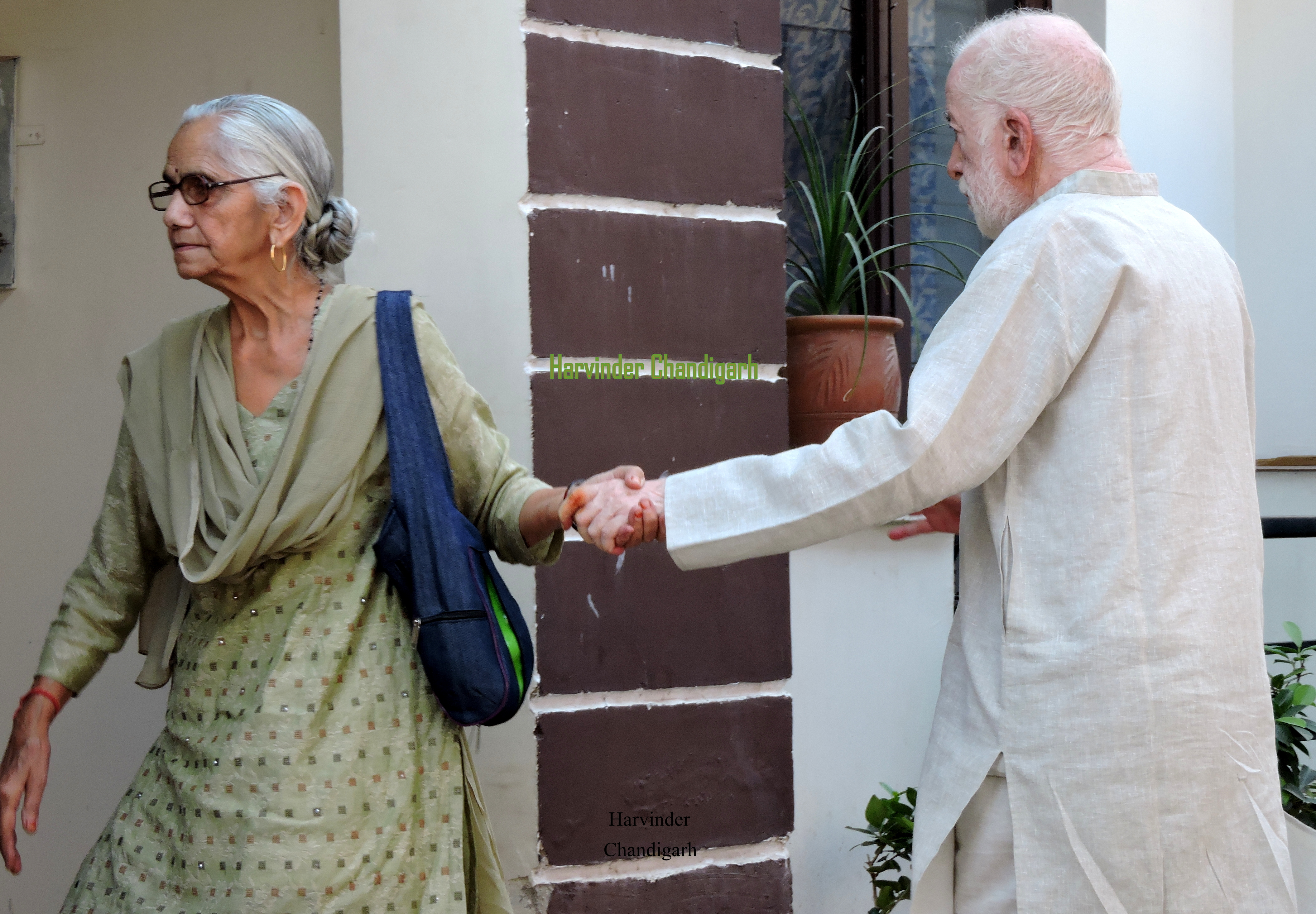 Mohan Bhandari ,Punjabi language story writer with his wife, East Punjab ,Chandigarh